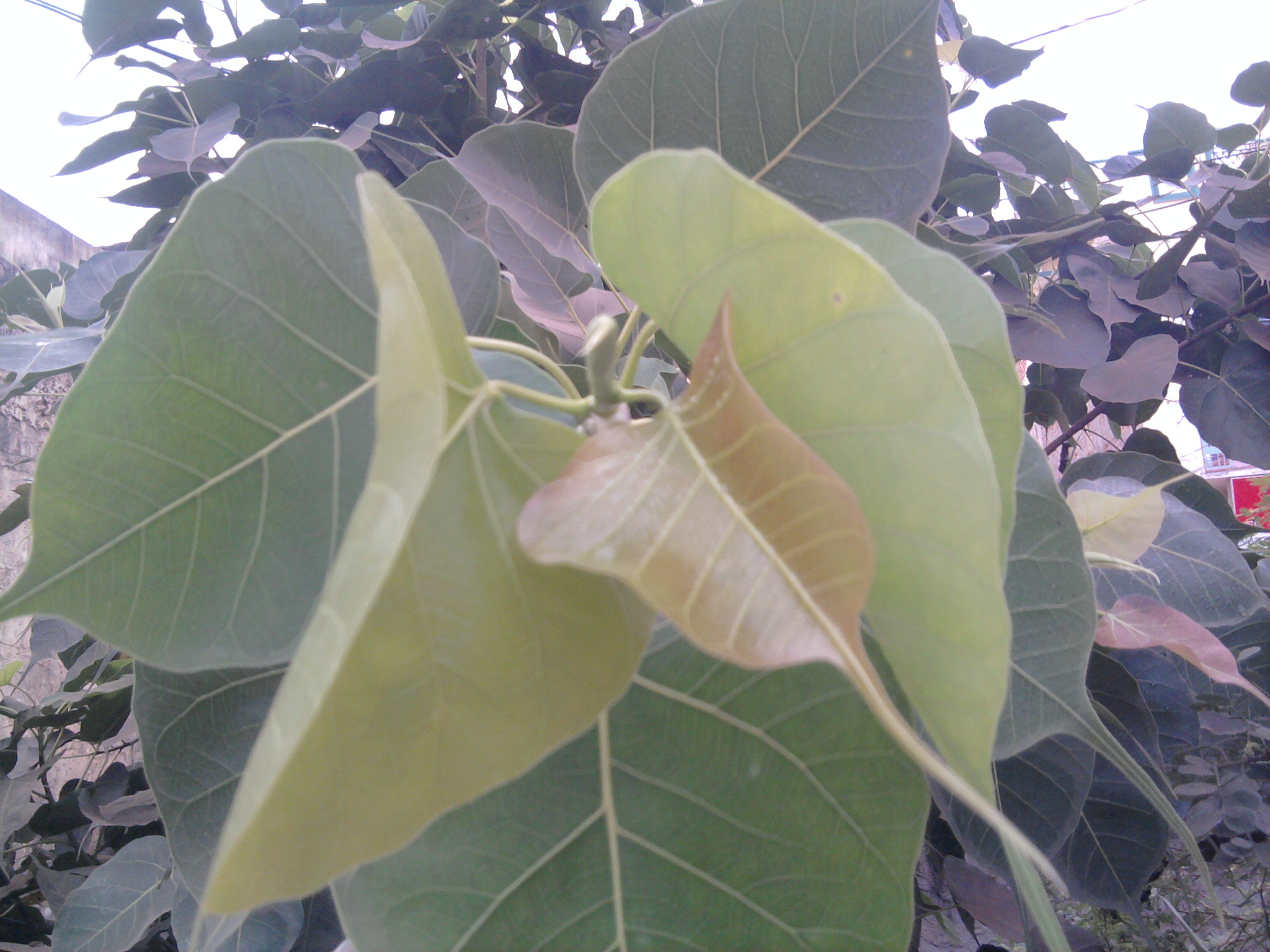 Ficus religiosa Leafs